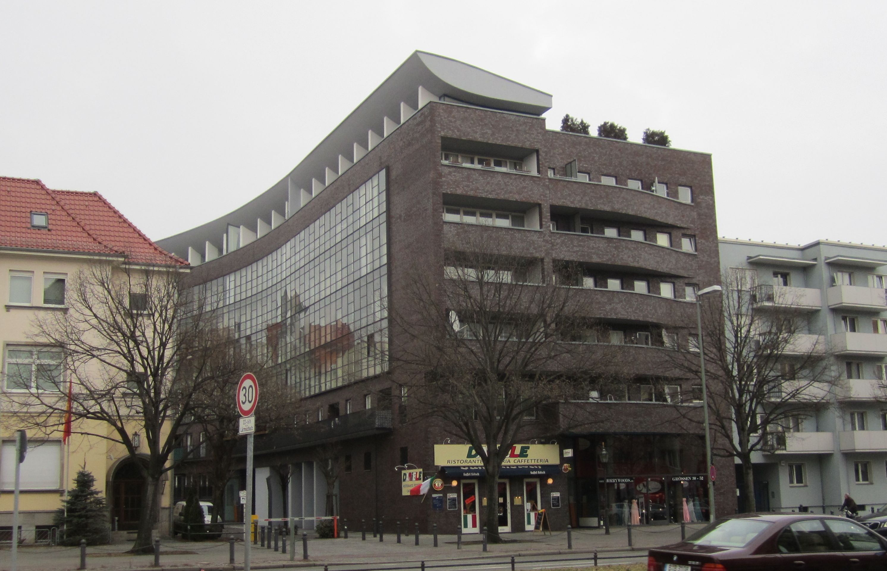 House Otto-Suhr-Allee 144 in Berlin, Germany.